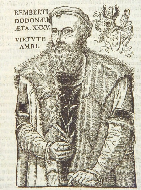 Rembert Dodoens (1517 – 1585), Flemish physician and botanist